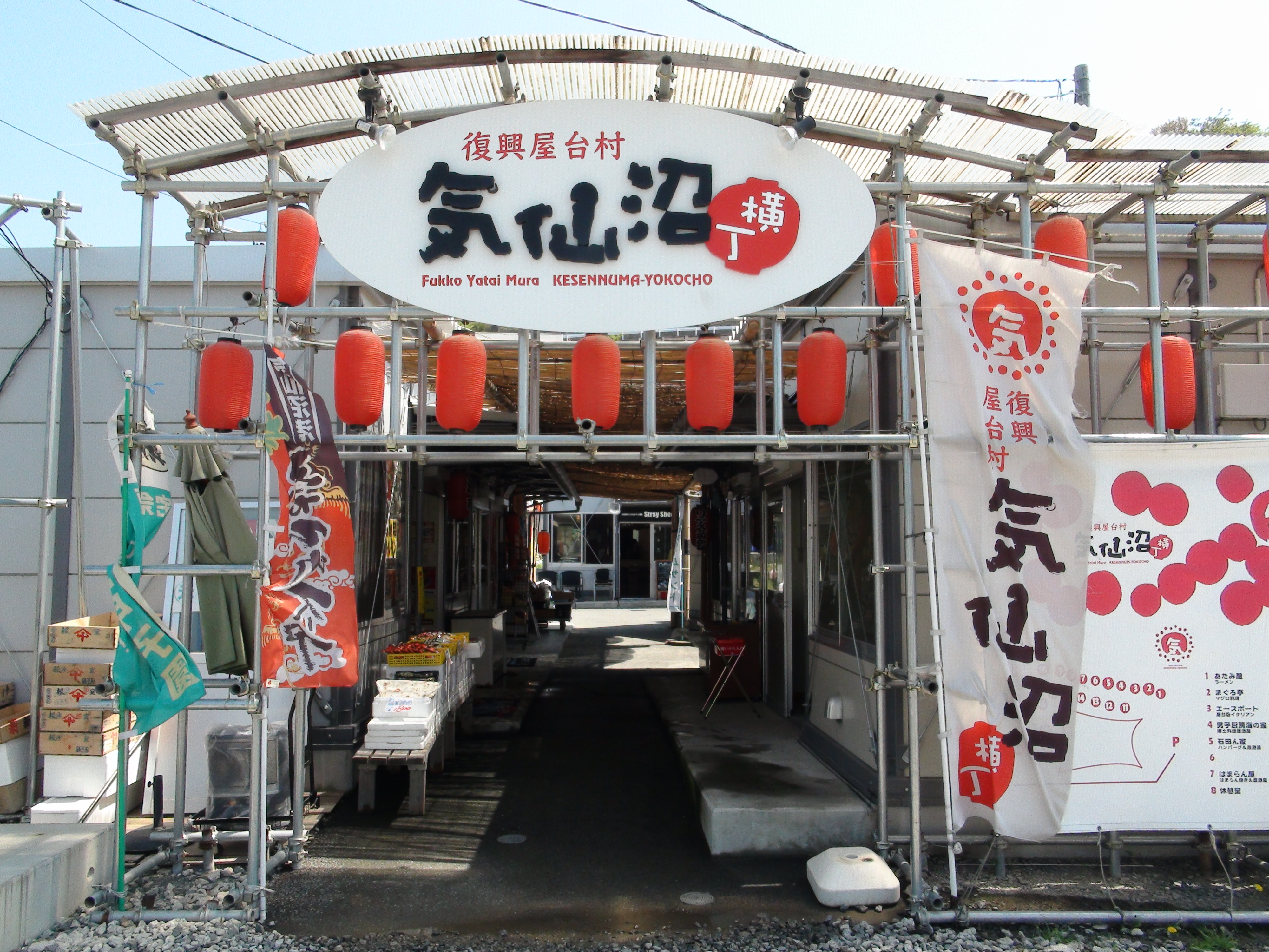 Reconstruction Food Village Kesennuma alley entrance